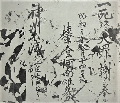 Suicide notes of Army Minister Anami before suicide